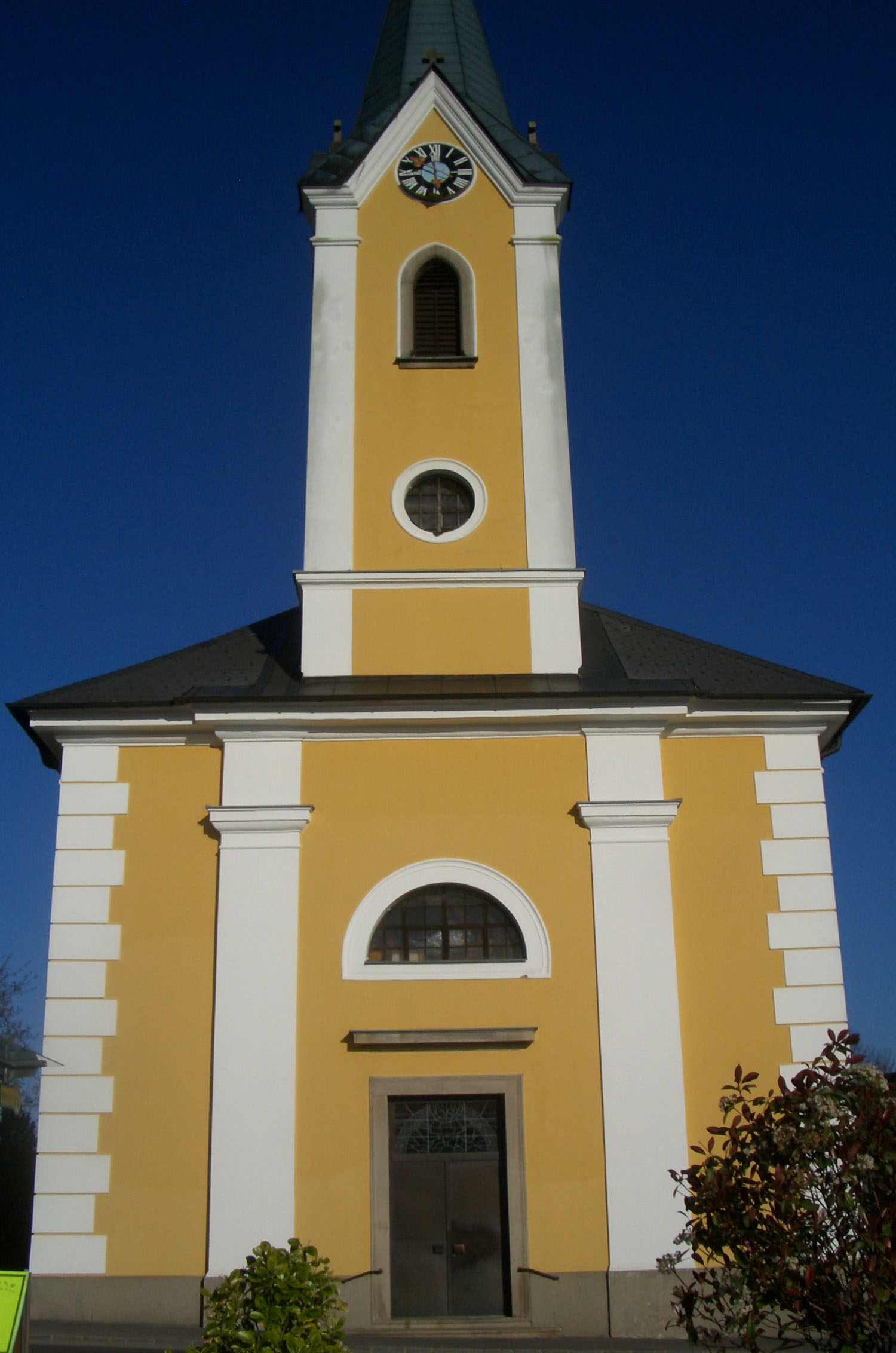 Church of Alberndorf, Upper Austria